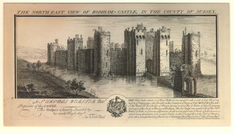 "The North East View of Bodiham-Castle in the County of Sussex," engraving, published in 1737. Courtesy of the British Museum.